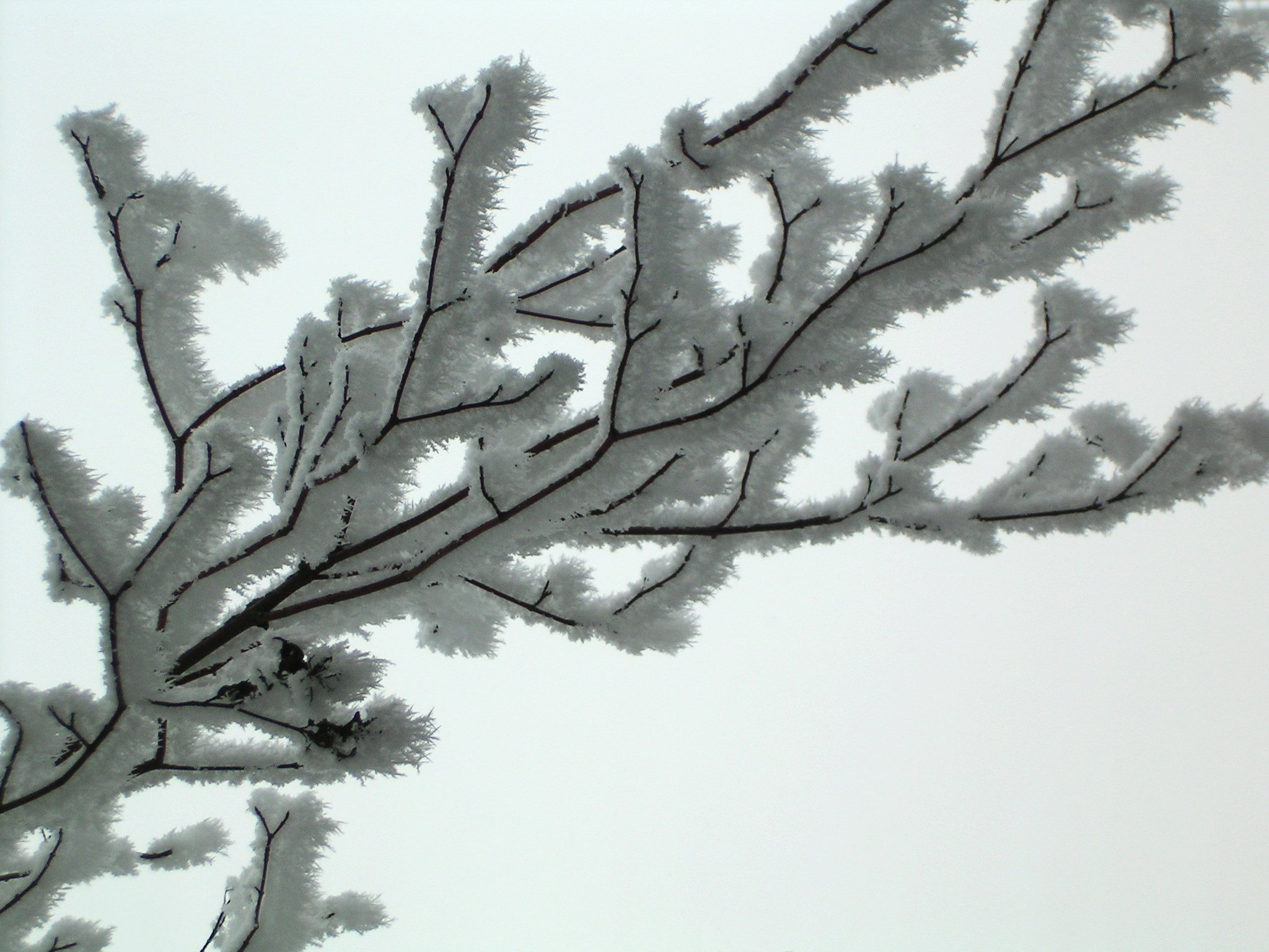 Rime. The tree stood a little exposed at a disposition, the wind blew upside it (from the right). The large cristals didn't survive for more than one hour—the sun came. Bearbeitung: Kontrast mit Gimp wenig erhöht, Helligkeit korrigiert (Wert), kleiner Zweig unten rechts gekappt.